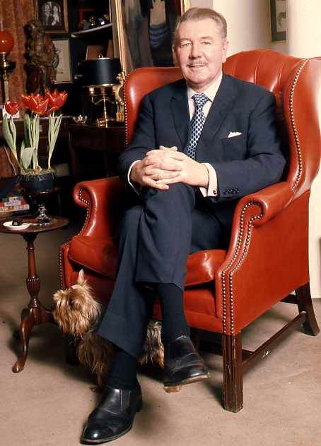 portrait of Sir Michael Redgrave